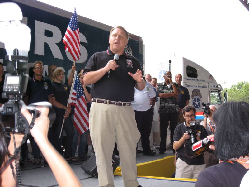 James Hoffa, Jr.